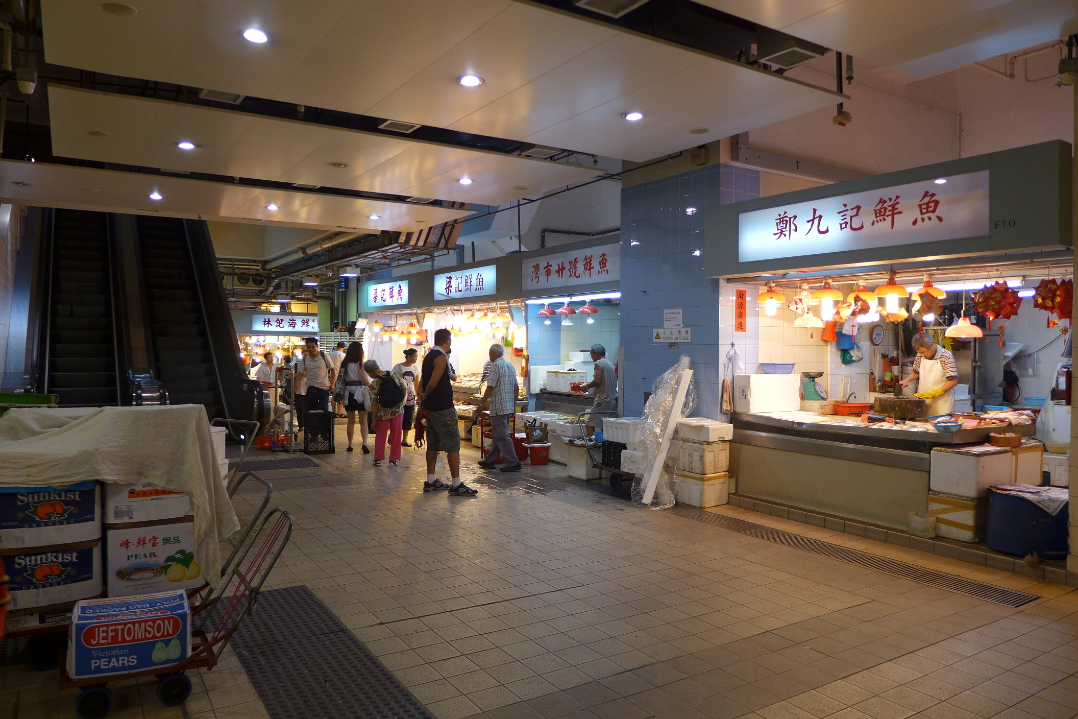 Wanchai Market Interior